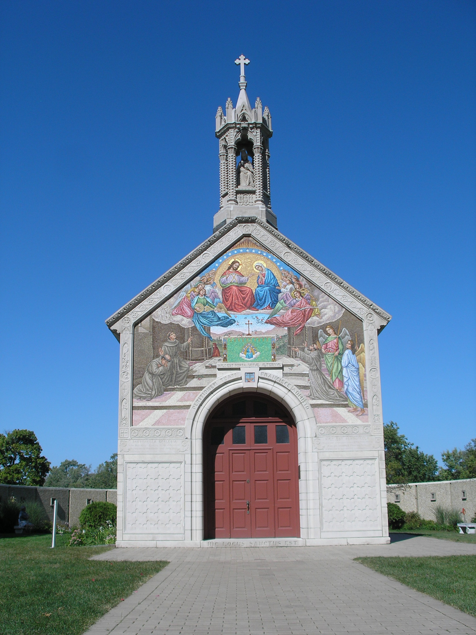 The Mayslake Peabody Estate in Oak Brook, IL.